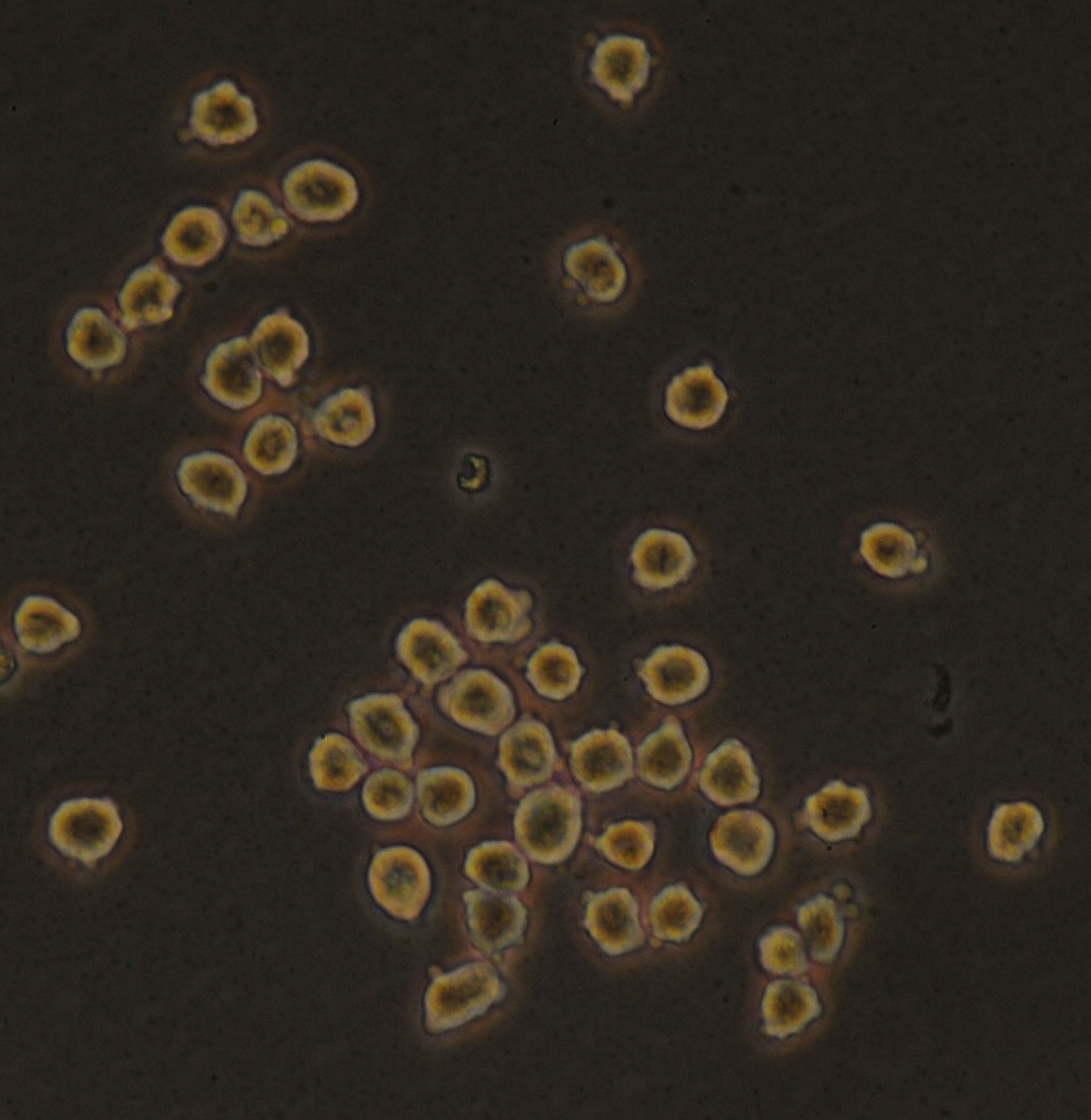 A phase contrast image of monoclonal antibody producing hybridoma cells grown in tissue culture. These cells are producing large amounts of monoclonal antibody which can be readily purified from the culture media.